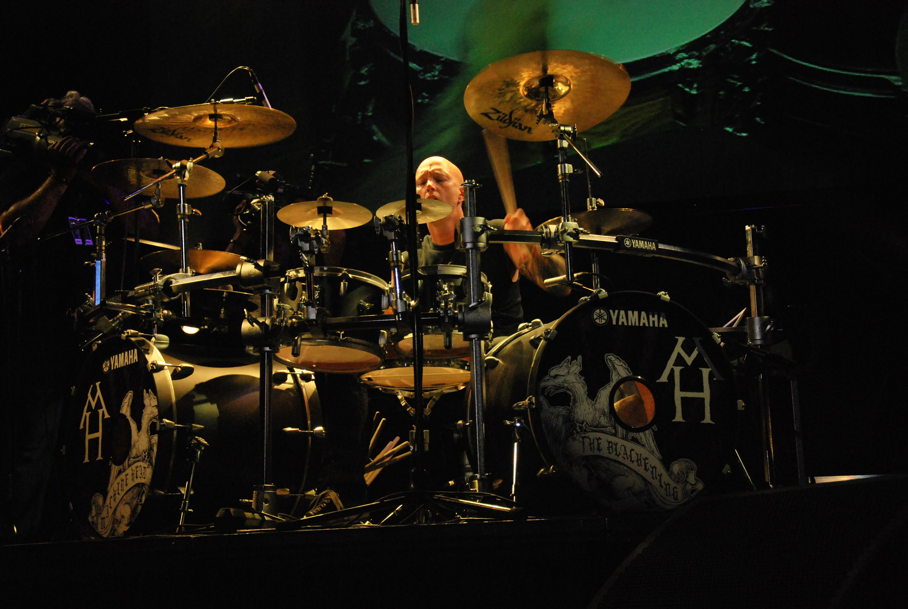 Dave McClain of Machine Head